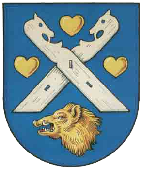 Coat of Arms of Wendisch Evern First upload in de-wp: Die wilde 13 (21:43, 8. Jan. 2007 - Bild:Gemeinde Wendisch Evern.jpg)